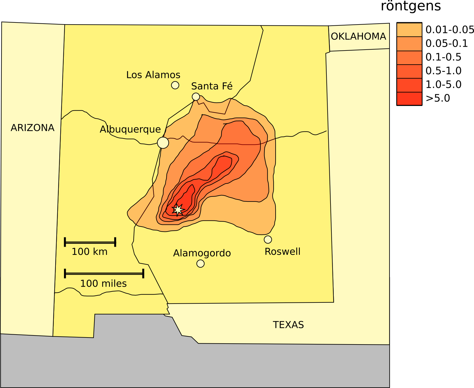 Trinity test fallout over New-Mexico.